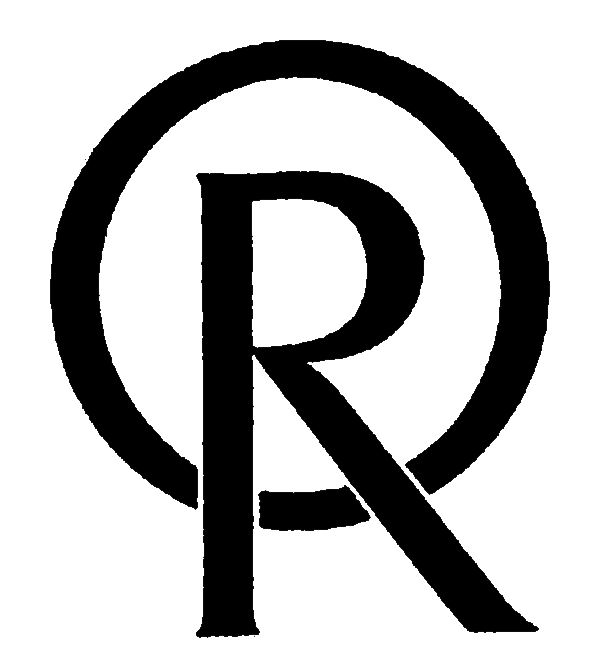 Happy Science logo